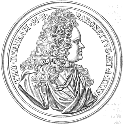 Medal of Sir Thomas Dereham, 4th Baronet (or Derham) (ca. 1678-1739) was an English baronet who spent most of his life in Italy, where he acted as an informal representative for the English crown. From the inscription, he is depicted at the age of 36.